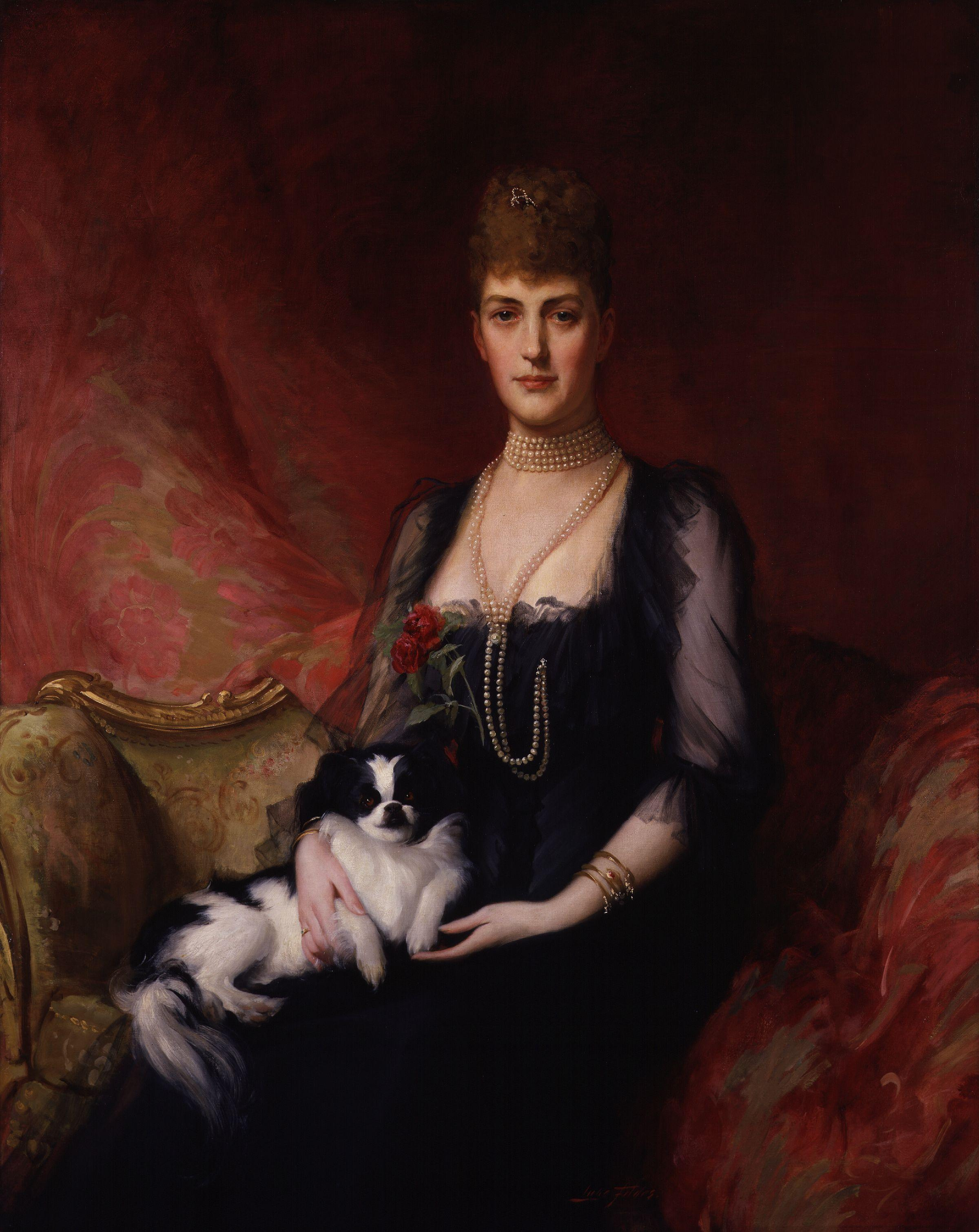 Portrait of Alexandra of Denmark. The dog is thought to be a Japanese Chin called Punch.